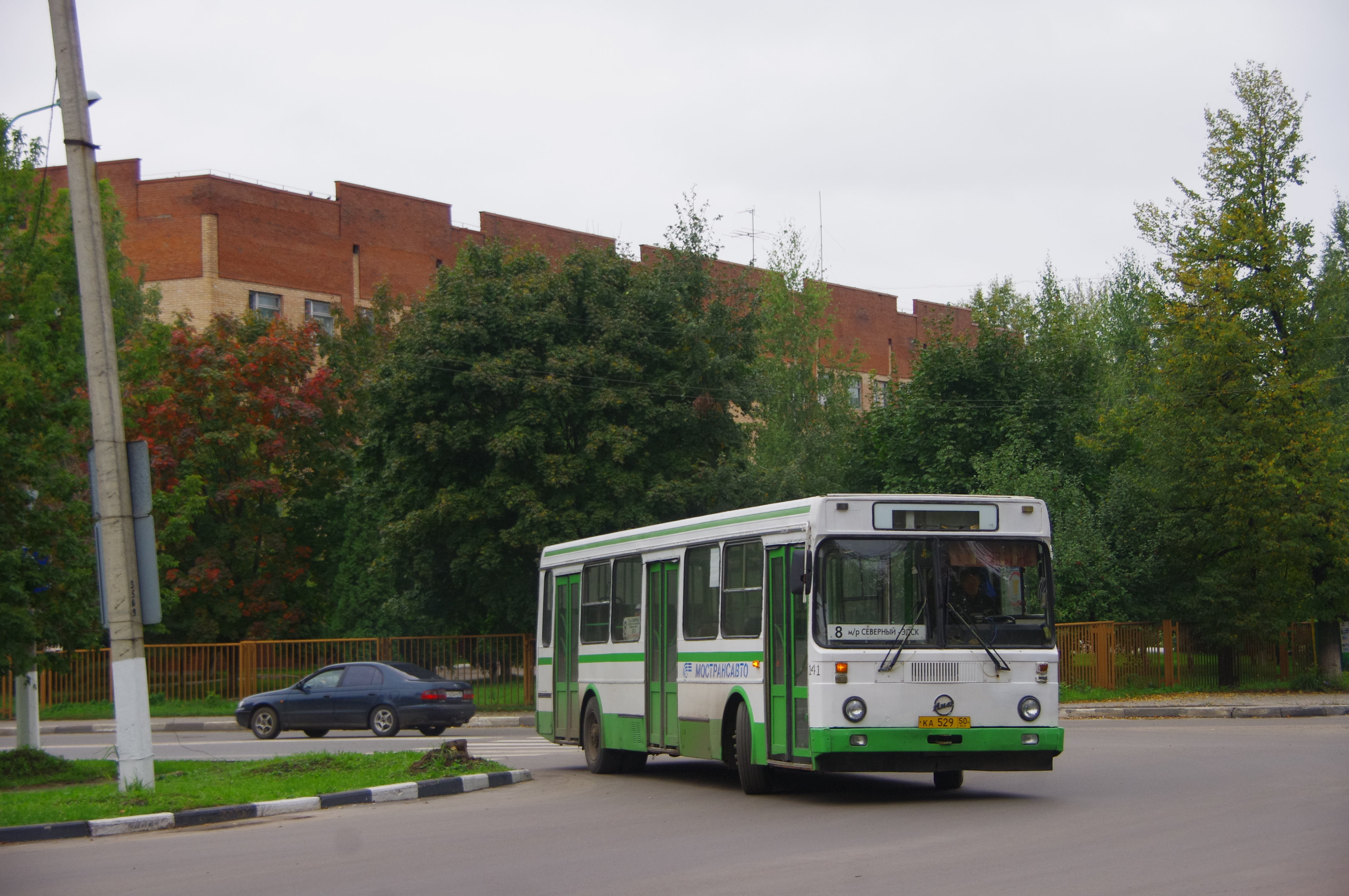 zO7x8vDg7fHg4vLuIN3r5ery8O7x8uDr/CDg4vLu4fPxIMvowMctNTI1NiDK wDUyOSA1MCBleC1Nb3Njb3c=